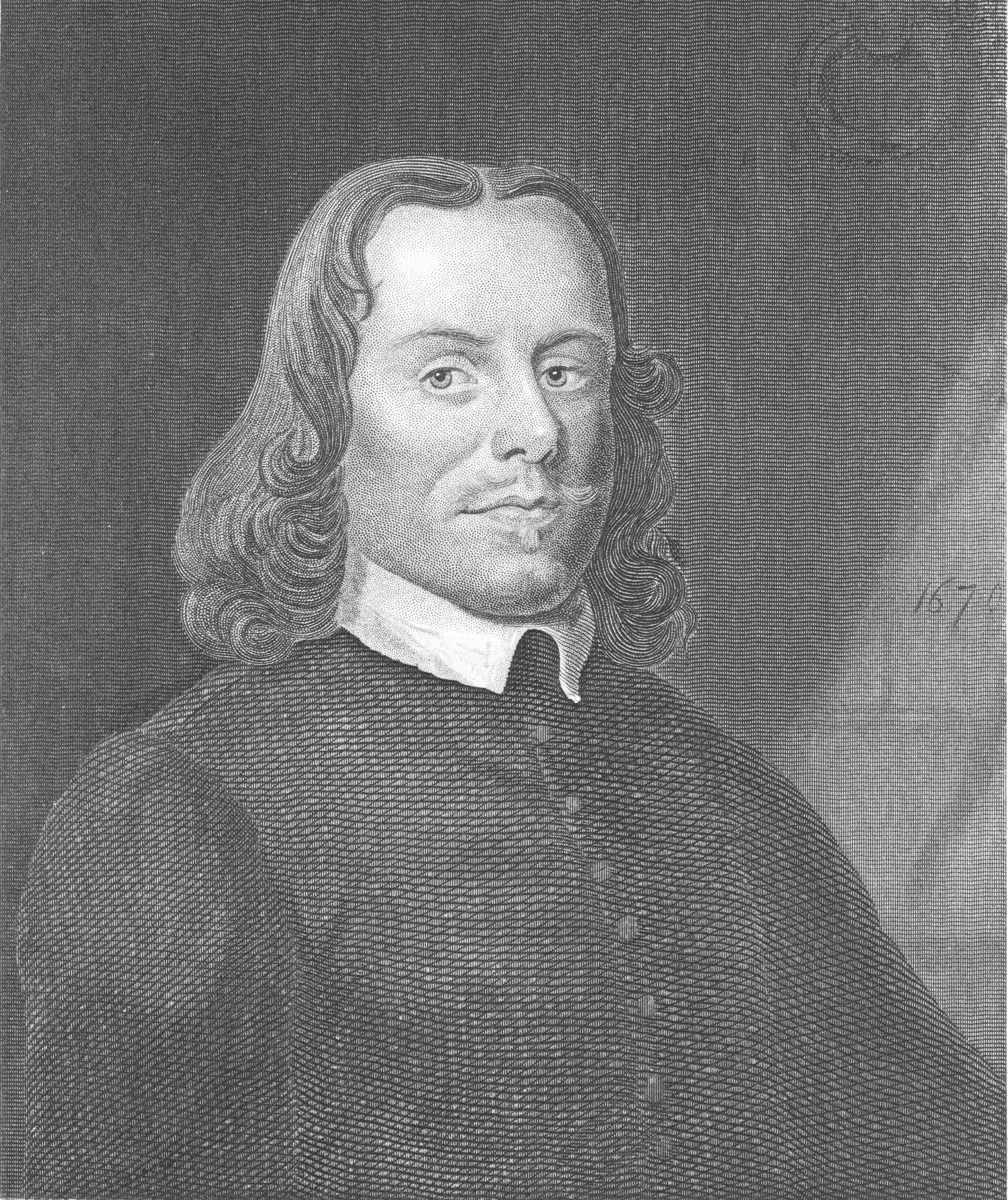 This is an artist's rendition of John Bunyan -- The famous Christian writer who wrote The Pilgrim's Progress